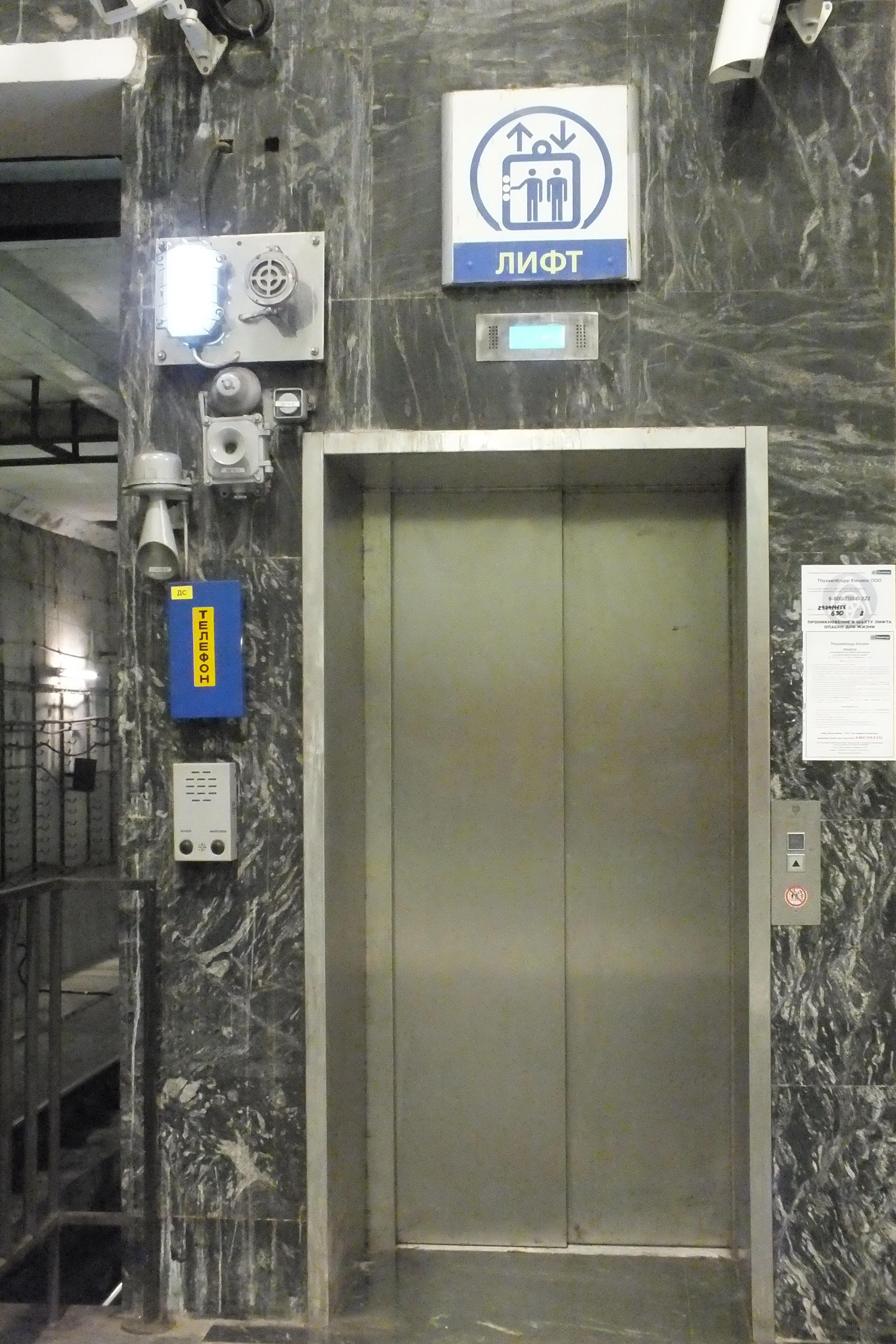 Lift on Borisovo metro station in Moscow.